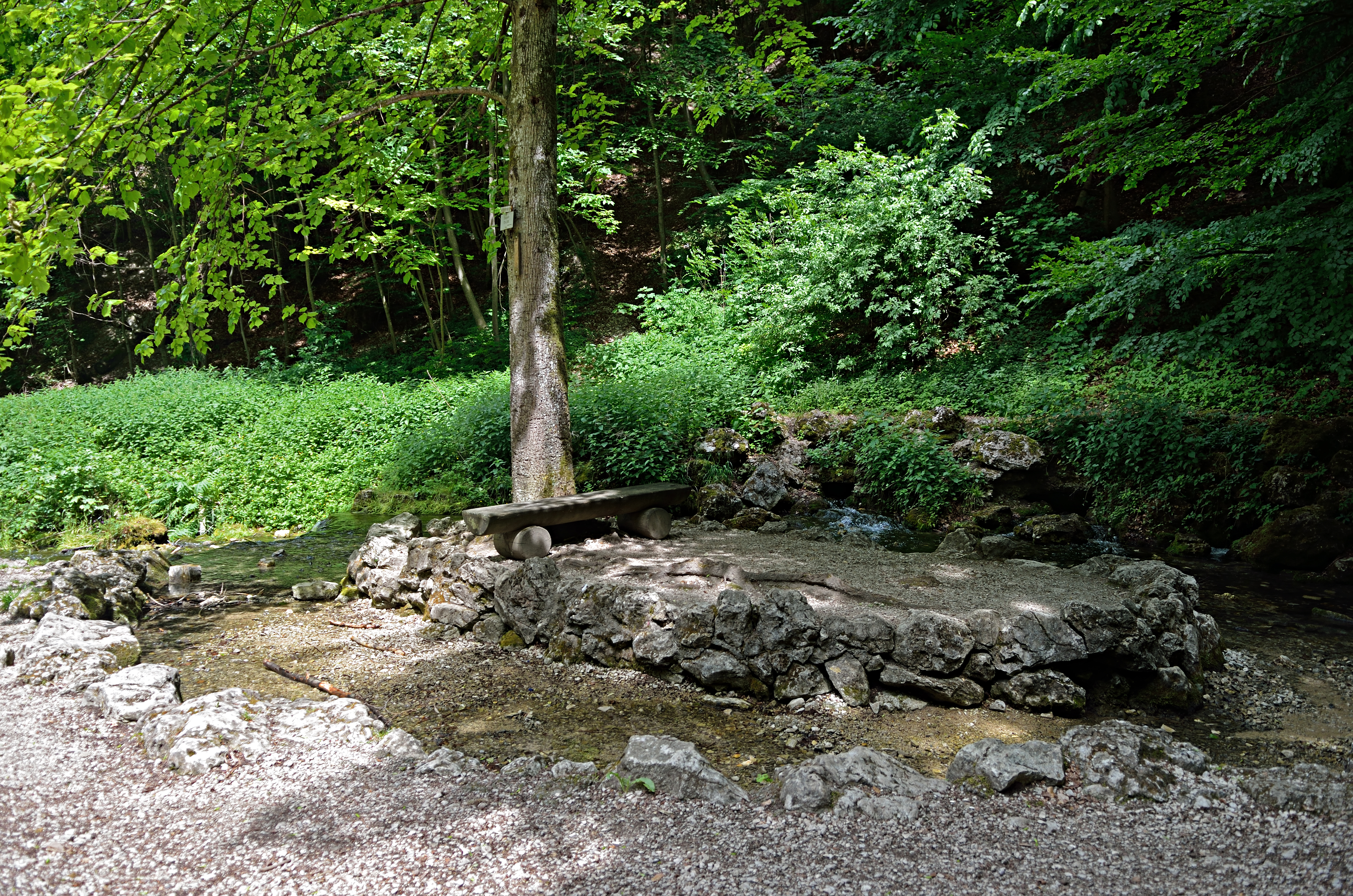 parts of the spring of the river Echaz in Lichtenstein